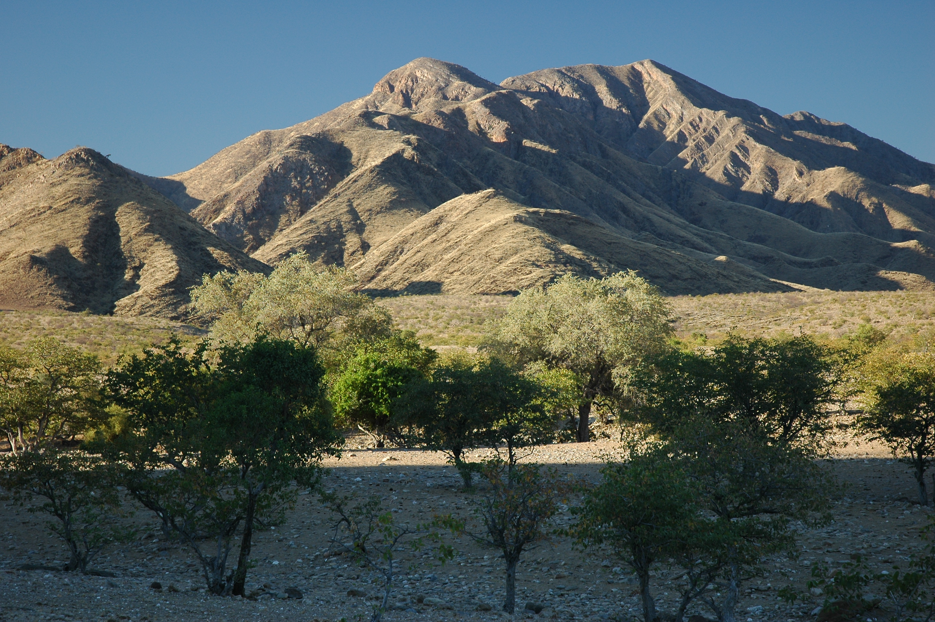 Kaokoland, Namibië Photographie prise par GIRAUD Patrick